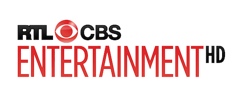 Logo of RTL CBS Entertainment HD